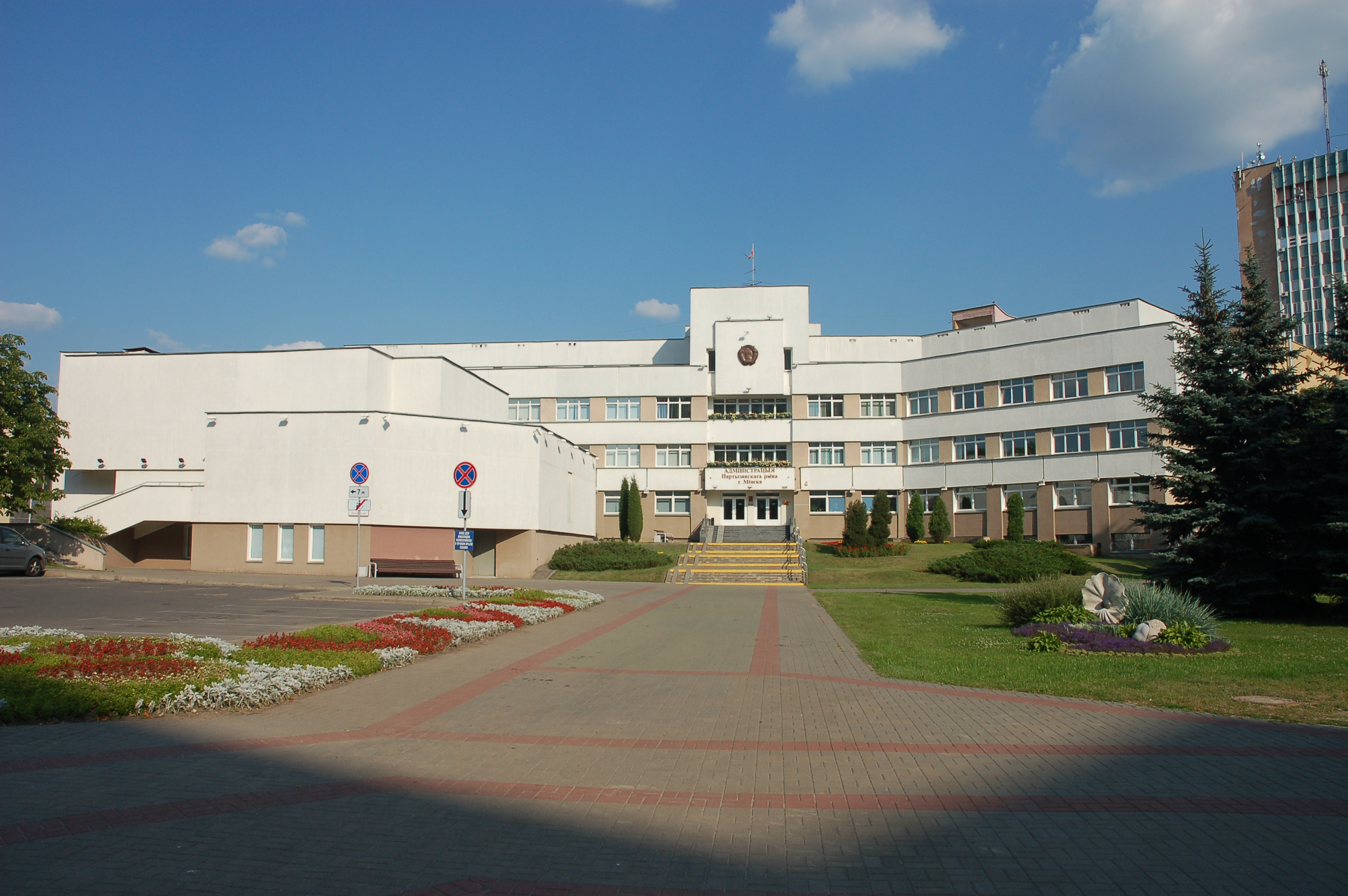 Minsk, 53 Zakharava Street